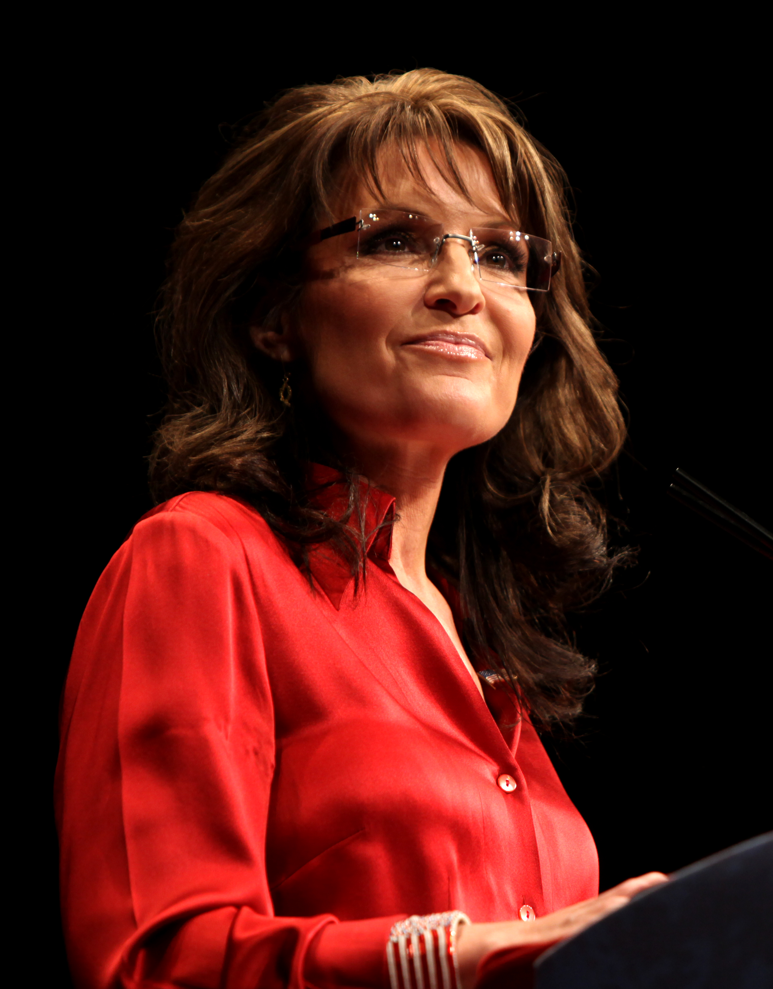 Sarah Palin speaking at CPAC in Washington D.C. on February 11, 2012.